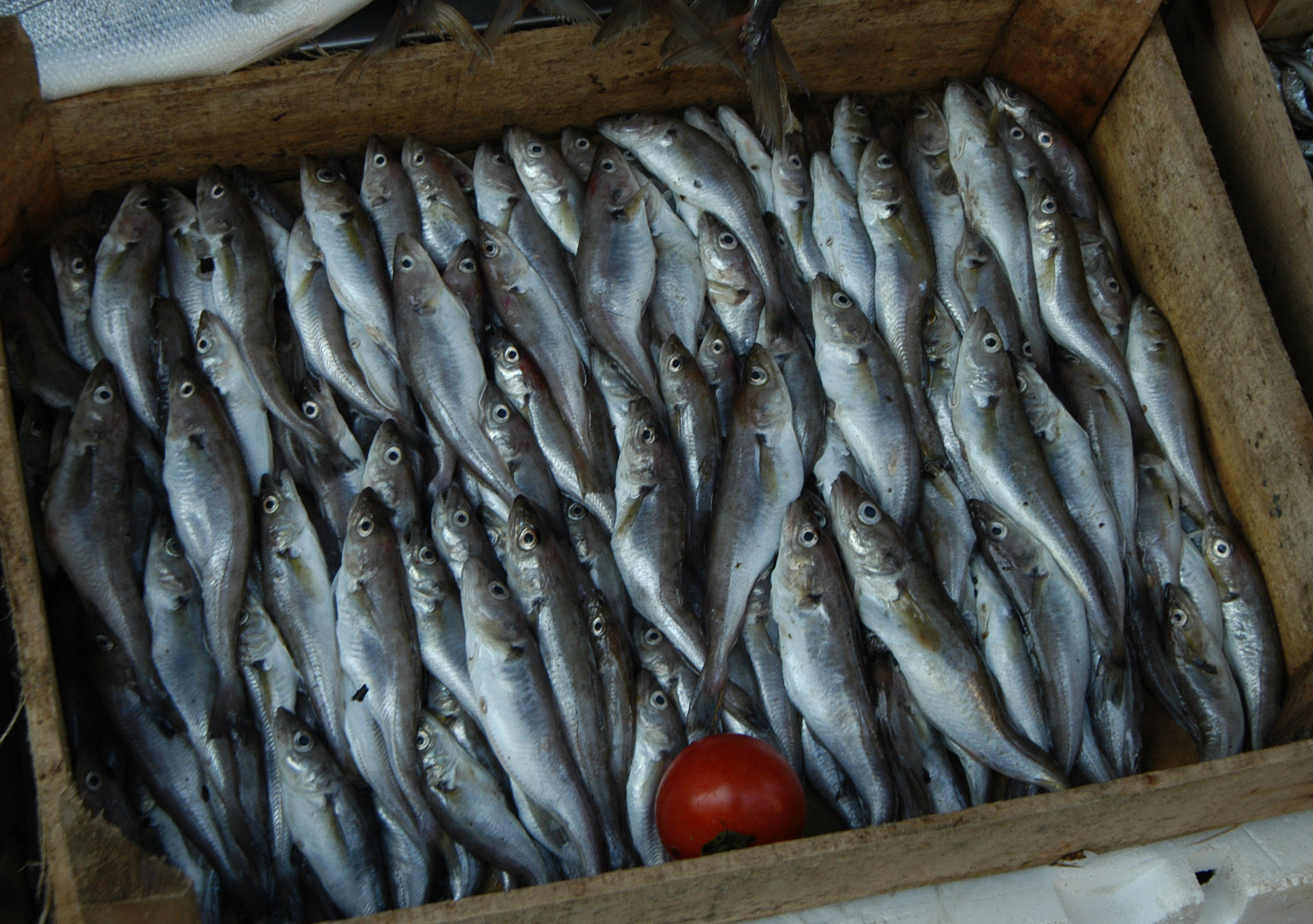 Please report references to kulacgmx.at.